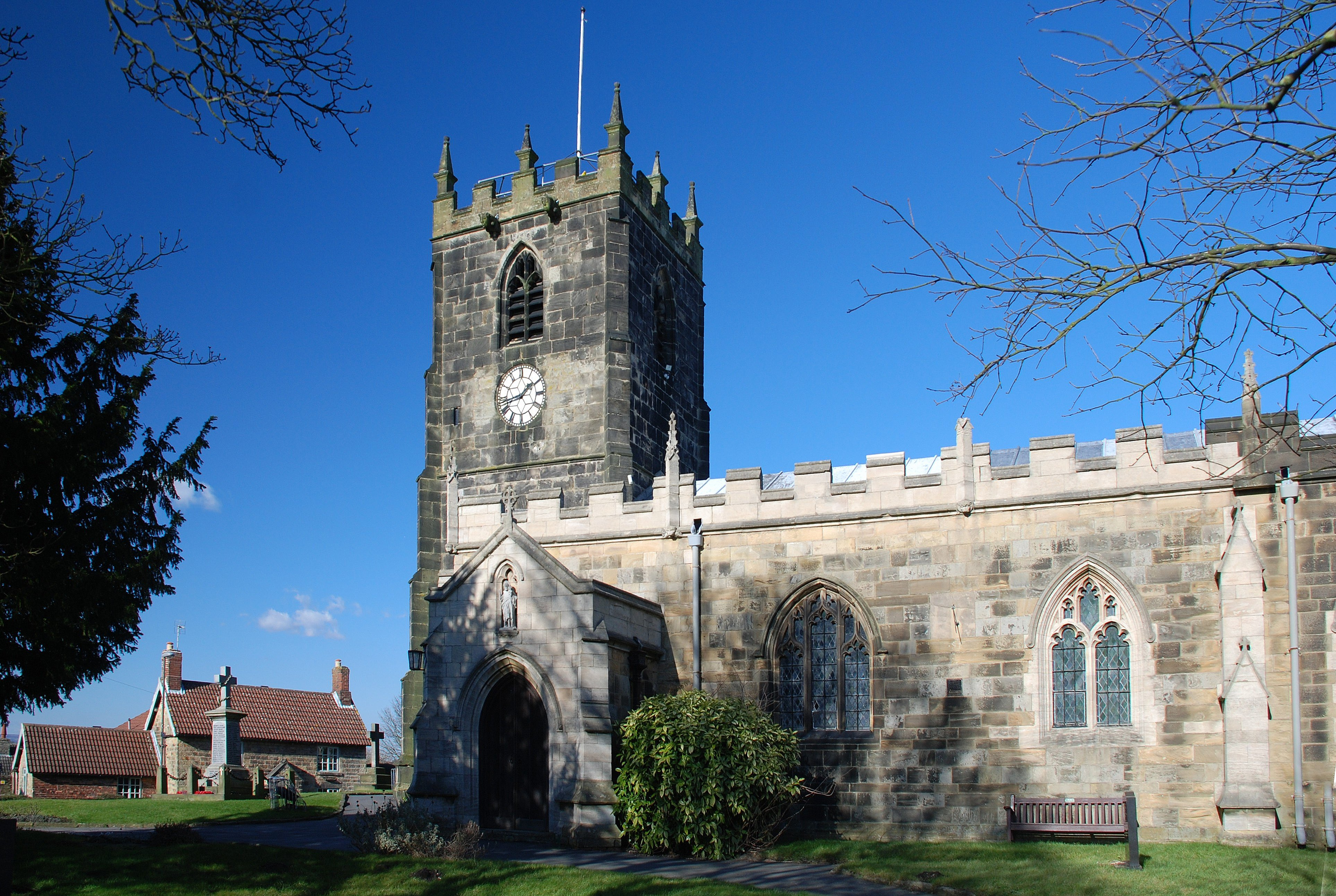 Church Of St John The Baptist Wikidata has entry Q26402682 with data related to this item.